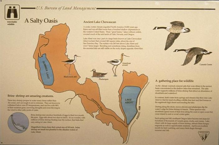 Interpretive sign entitled “A Salty Oasis” located near Lake Abert in south-central Oregon. Lake Abert was once part of a larger pluvial lake known as Lake Chewaucan that covered 460 square miles